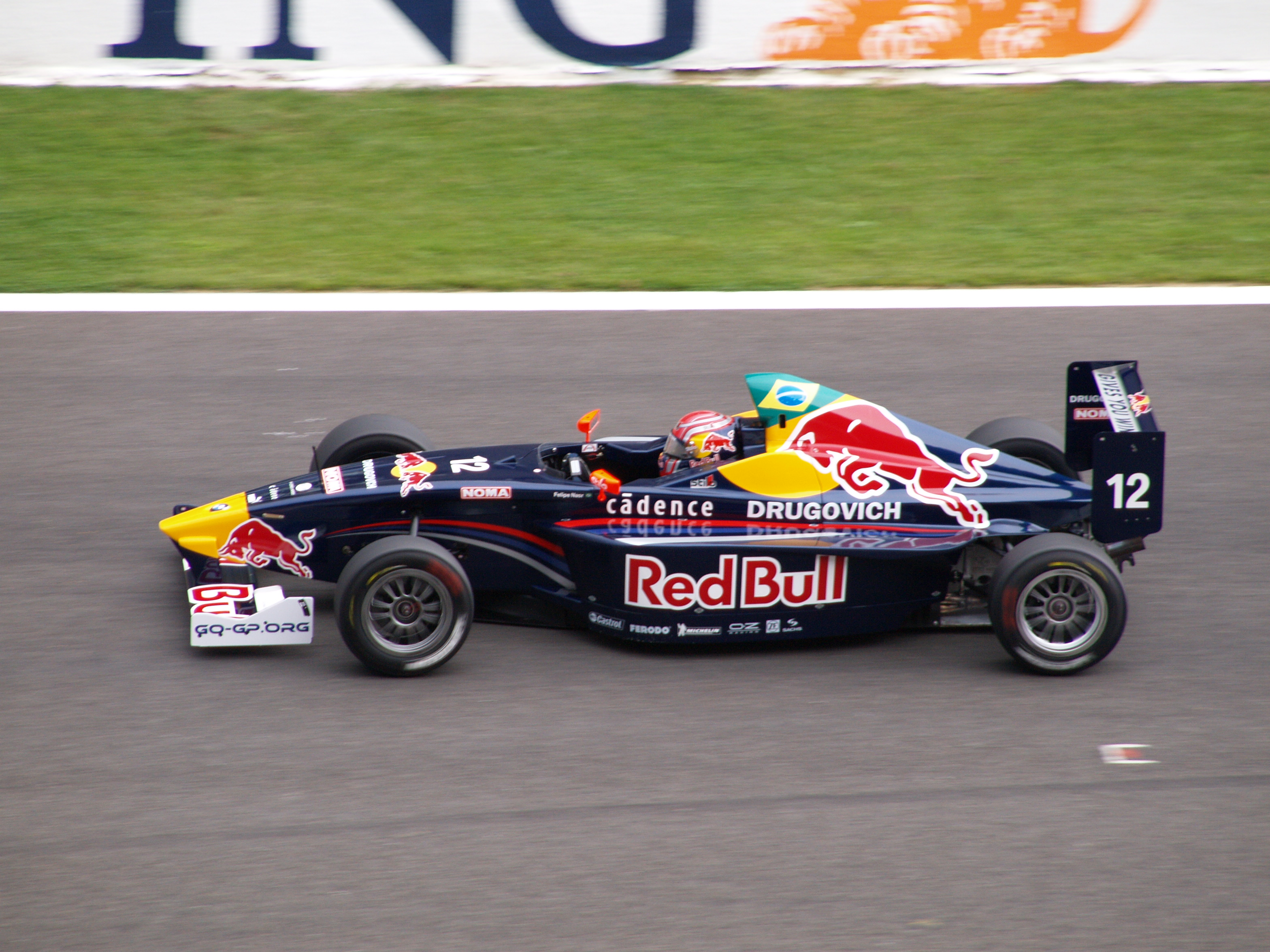 Felipe Nasr driving in the Spa-Francorchamps round of the 2009 Formula BMW Europe season.